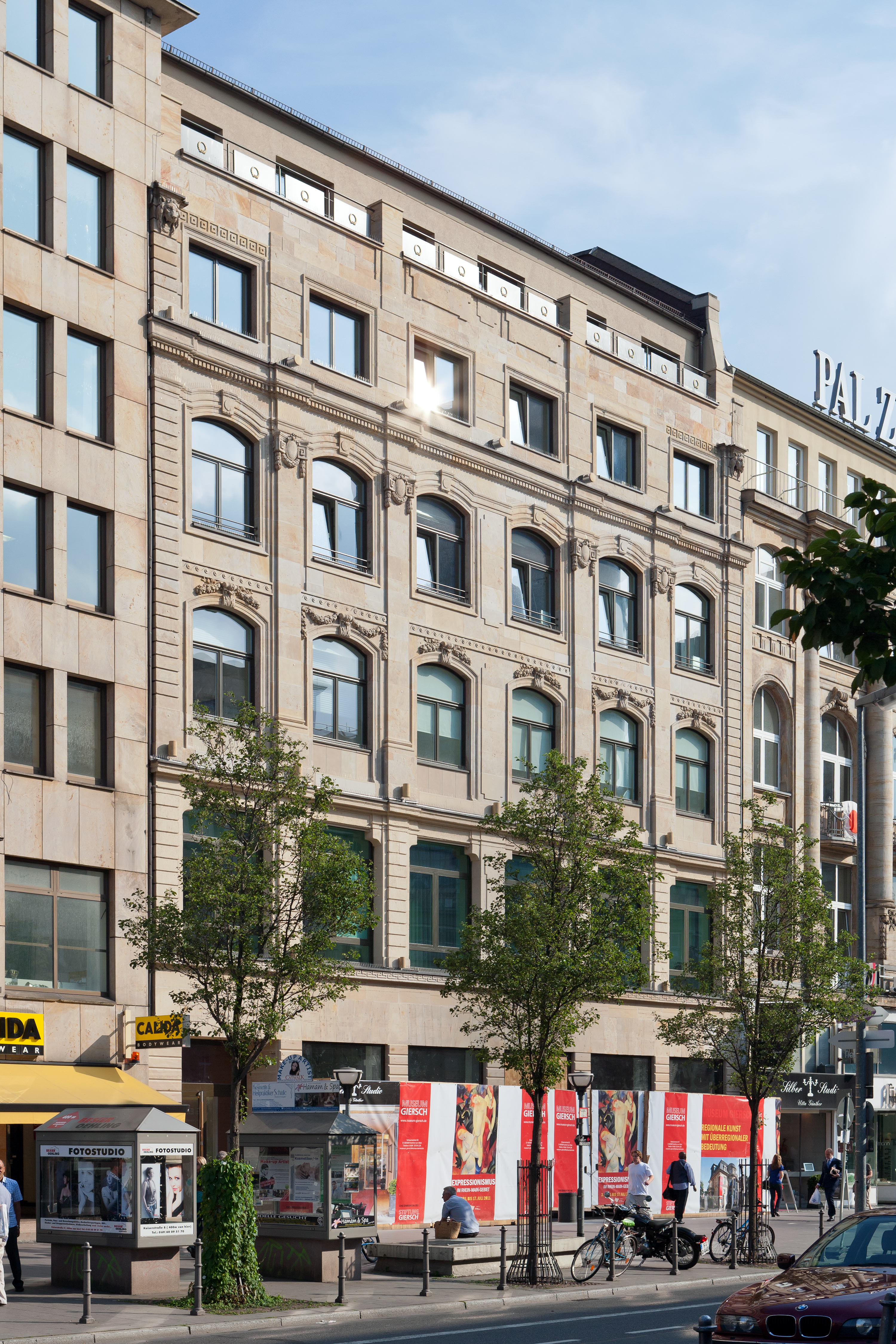 Frankfurt on the Main: Roßmarkt (Steed Market) 13 as seen from the north